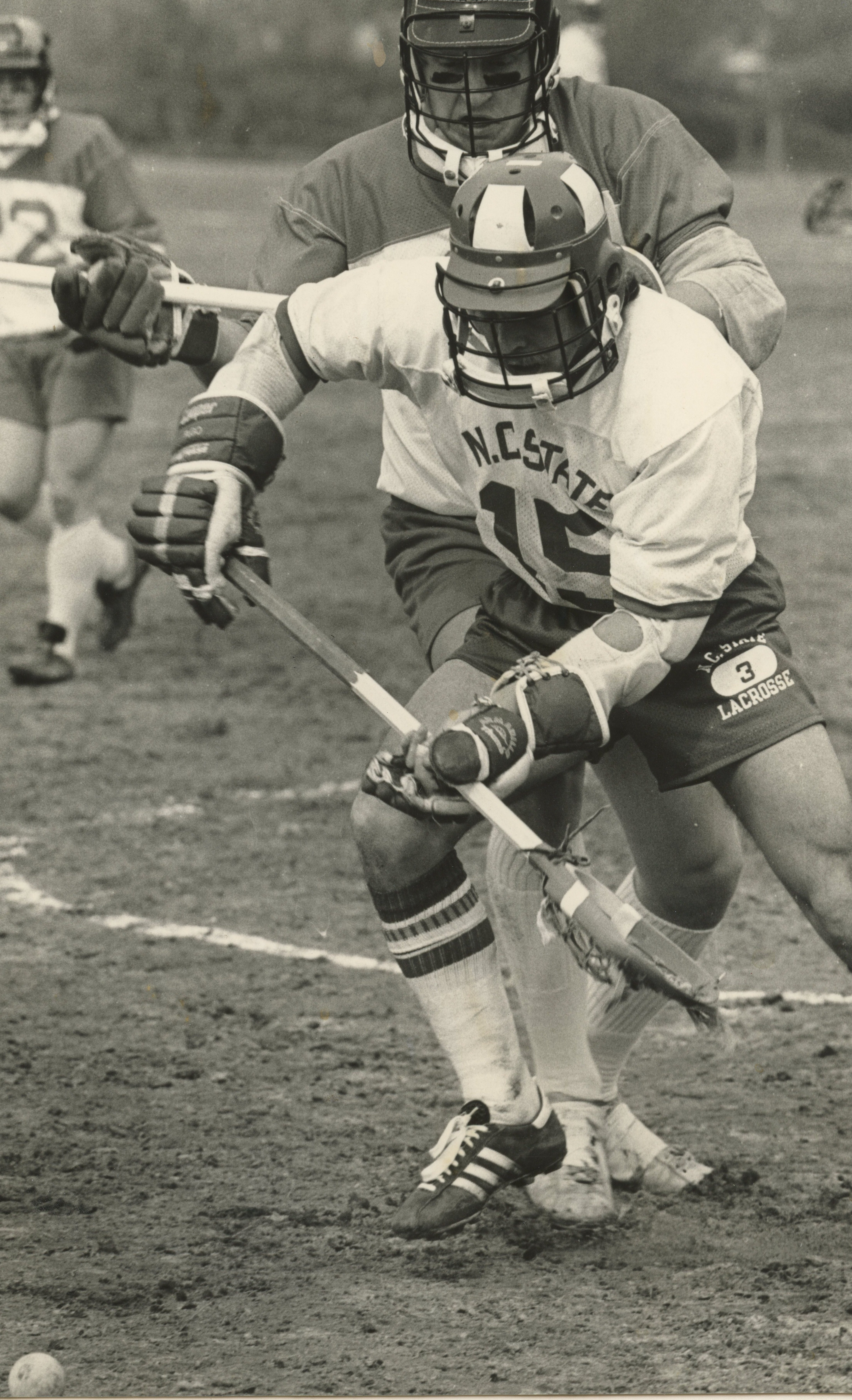 Stan Cockerton fights for a ground ball.